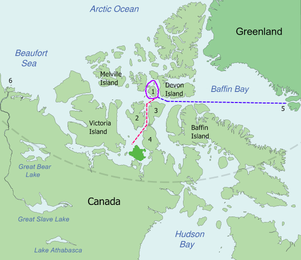 Map of the probable routes taken by Erebus and Terror during Franklin's lost expedition. Disko Bay (5) to Beechey Island, in 1845 Around Cornwallis Island (1), in 1845 Beechey Island down Peel Sound between Prince of Wales Island (2) and Somerset Island (3) and the Boothia Peninsula (4) to near King William Island in 1846 Disko Bay (5) is about 3,200 kilometres (2,000 mi) from the mouth of the MacKenzie River (6).